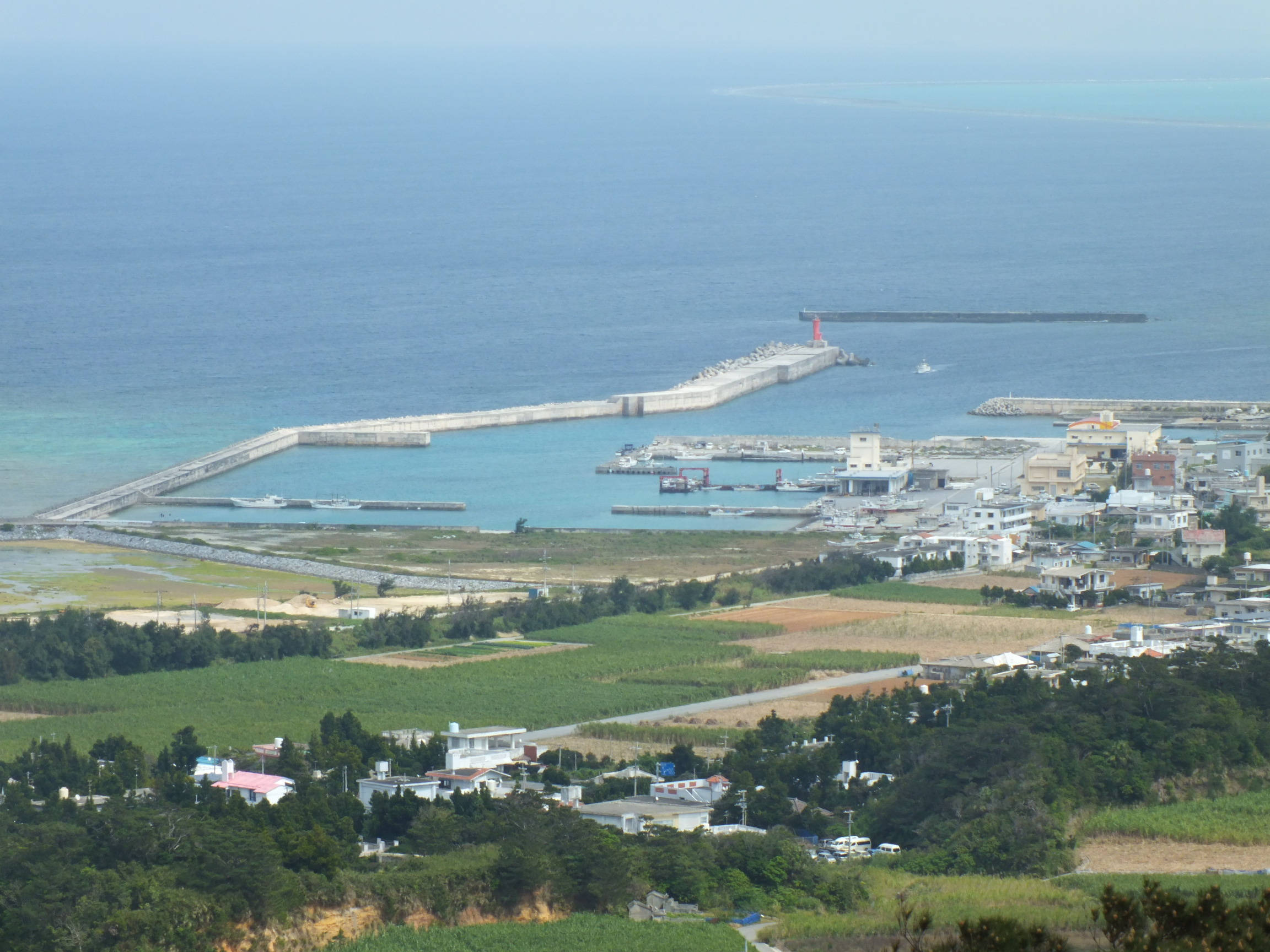 A port, seen from Tounnaha-jō, Kumejima, Okinawa Prefecture, Japan.